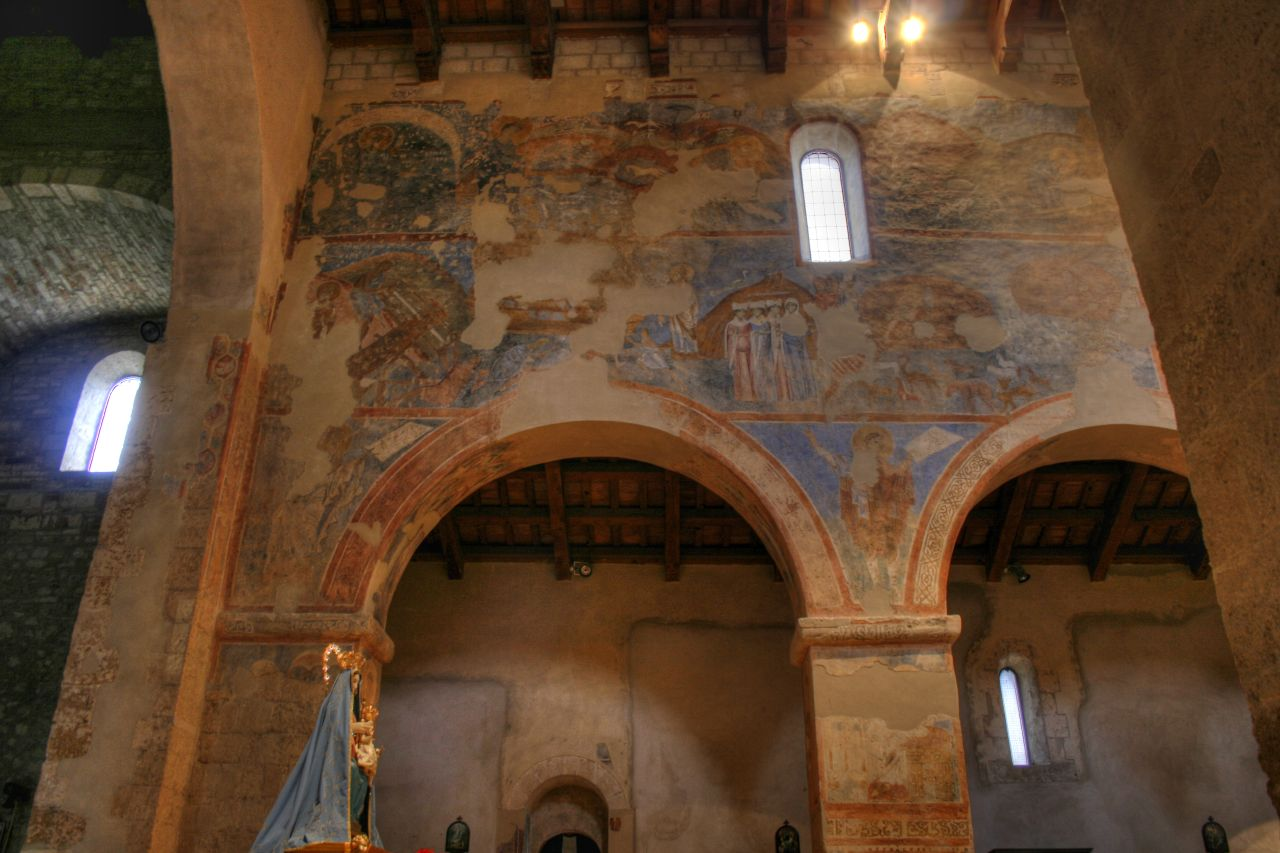 Affreschi Santuario di Anglona